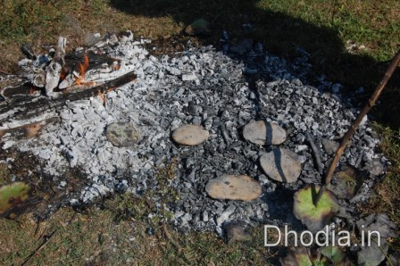 Dhodia